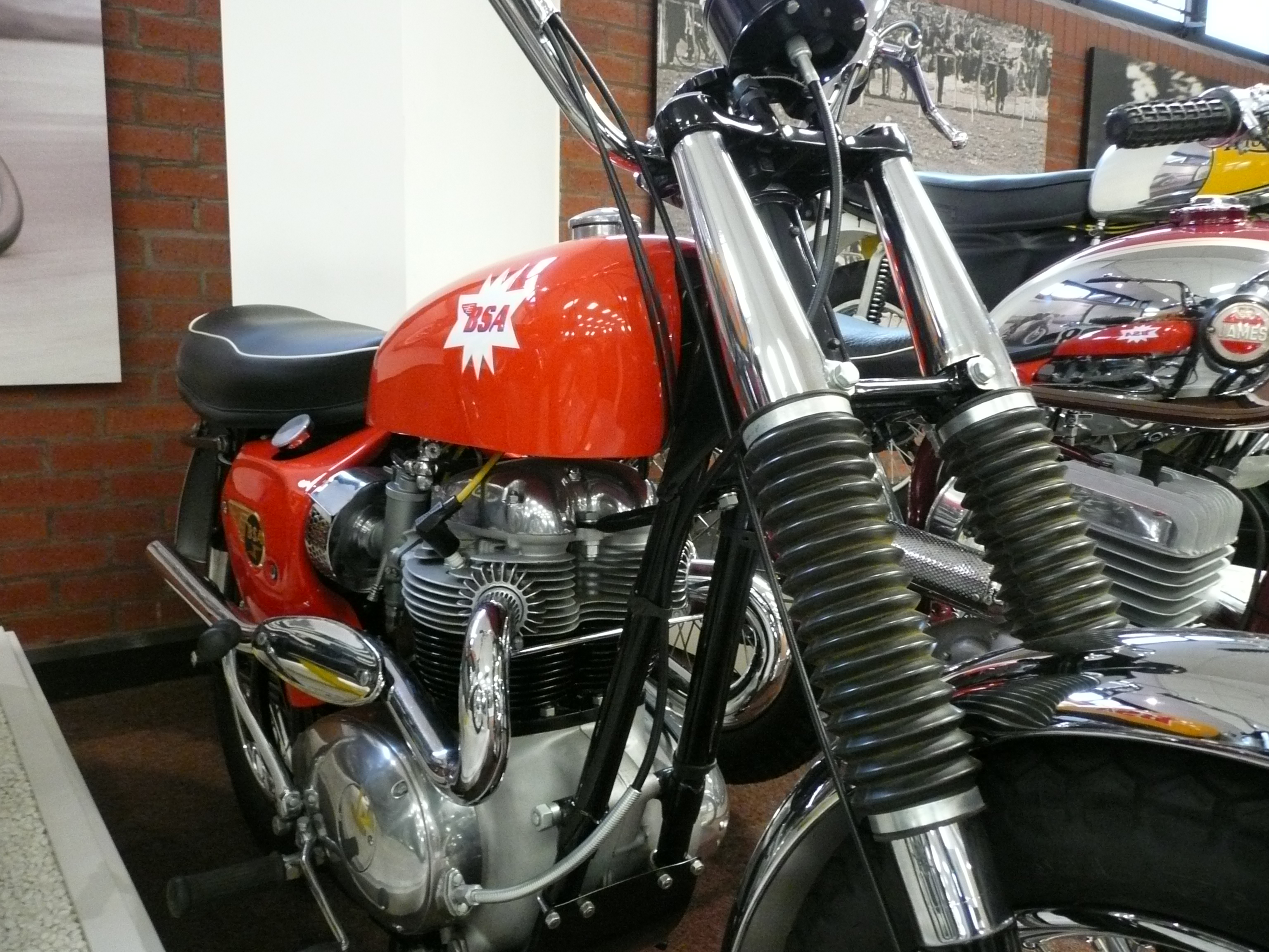 1966 BSA A65 Hornet motorcycle in the National Motorcycle Museum, West Midlands, England